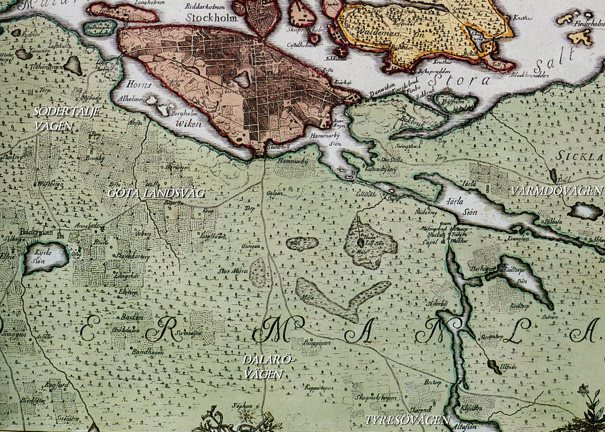 Historical map showing Stockholm, in the 18th century. The map is produced by Georg Biurman about 1750-51. This image shows a part of south Stockholm with "Södertäljevägen", "Göta landsväg", "Tyresövägen", "Värmdövägen" and "Dalarövägen"